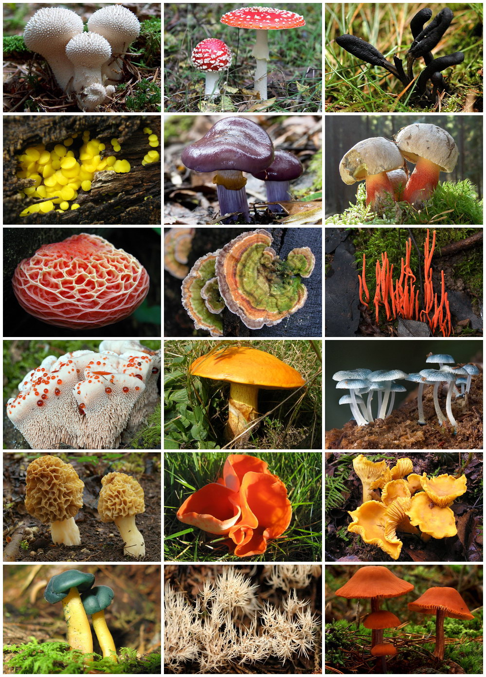 Fungi